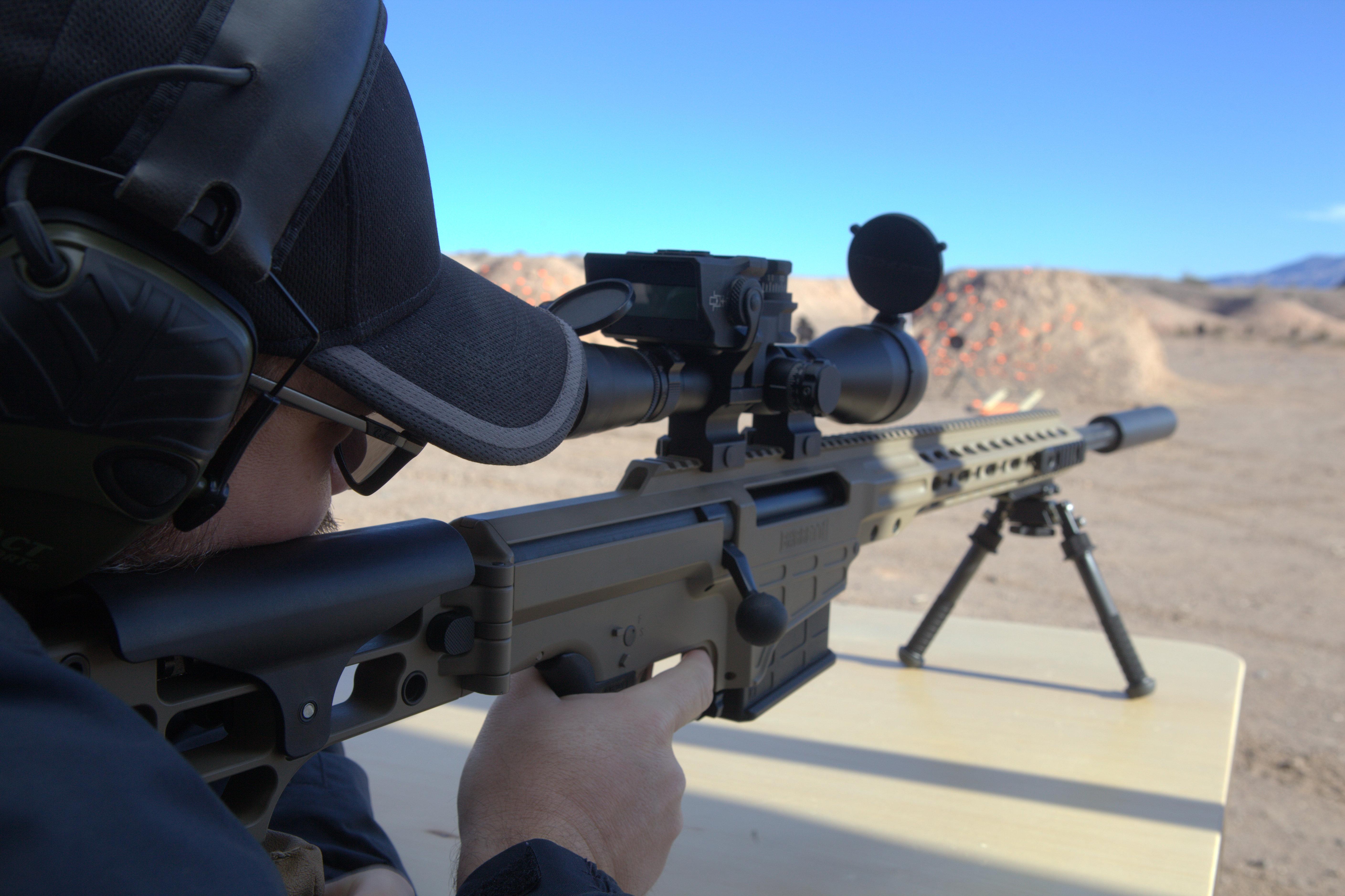 Barrett MRAD 0.308 sniper rifle with suppressor